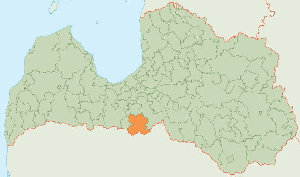 Map of Bauska